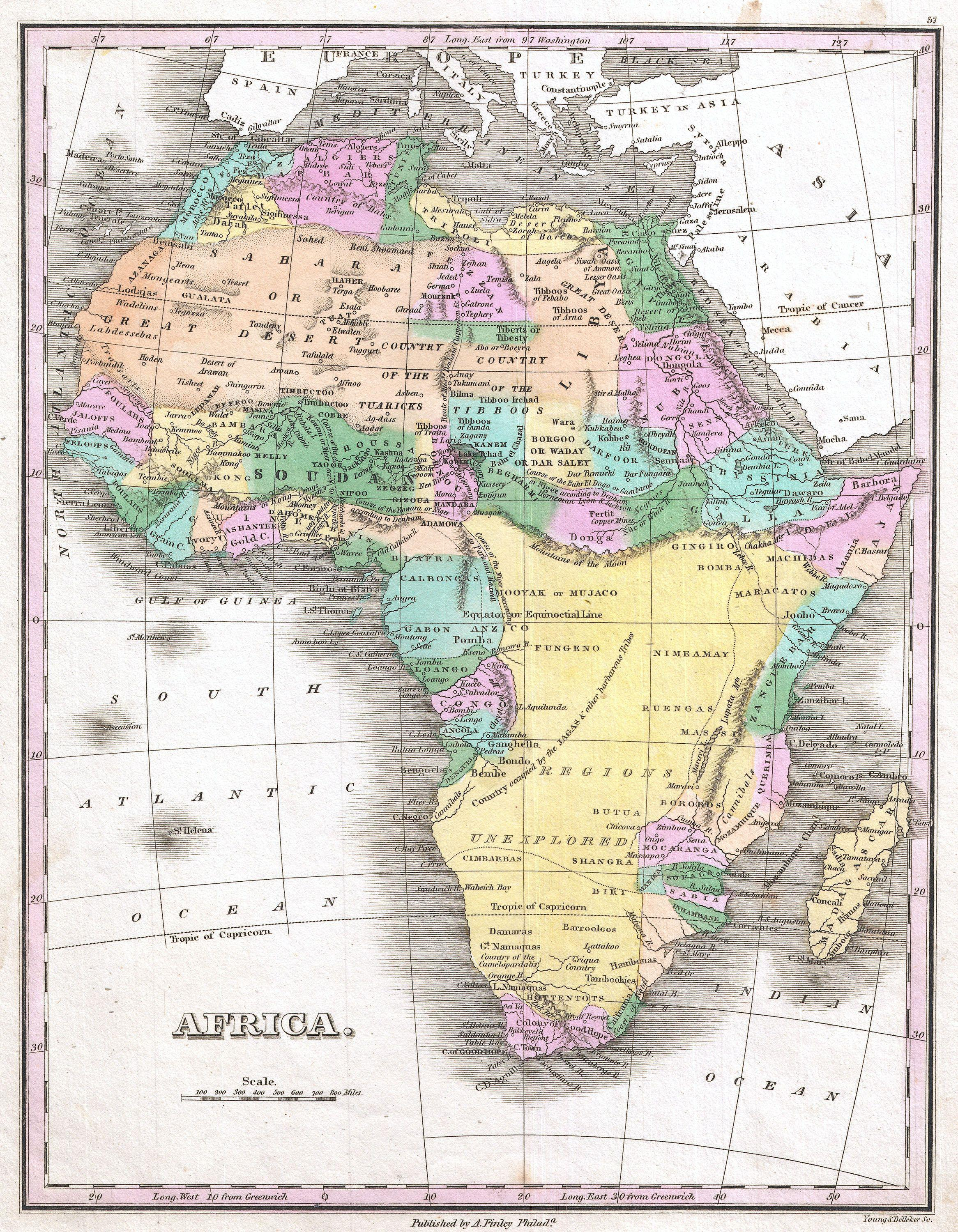 A beautiful example of Finley's important 1827 map of Africa. This uncommon map predates the explosion of African exploration that occurred in the mid 19th century. Much of the interior remains unknown. The Ptolemaic Mountains of the Moon are drawn stretching across the central part of the continent with the suggestions that they are the source of several branches of the Nile. Several speculative courses are drawn for the Niger River, one of which joins it to the Nile, another of which flows south of the Mountains of the Moon into the Congo, and yet another of which, correctly, bends southwards to empty into the Bight of Biafra. It identifies numerous African tribes throughout, including the Pomba, Jaga, Timbuctoo, Tuareg, Tibboos, Bambara, and others. It also identifies a land of cannibals in Mozambique. Title and scale in lower left quadrant. Engraved by Young and Delleker for the 1827 edition of Anthony Finley's General Atlas.